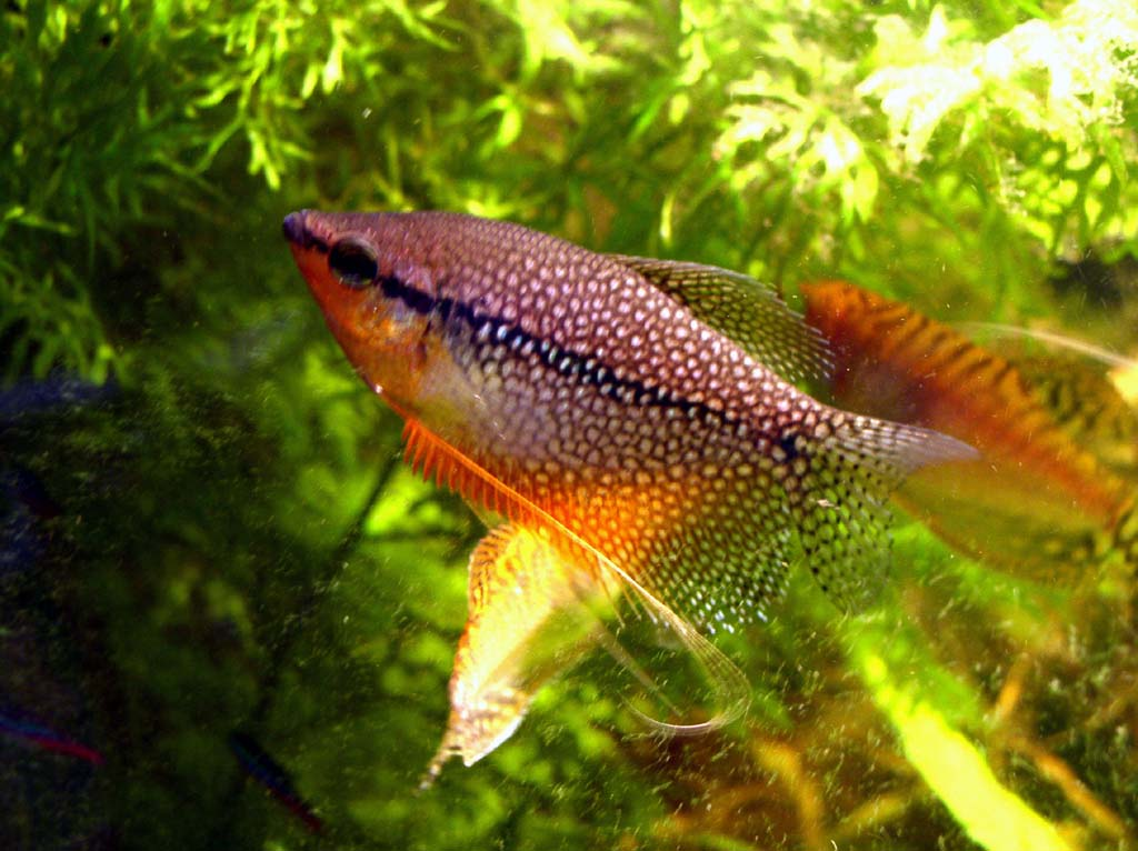 Male Pearl gourami (Trichogaster leeri).